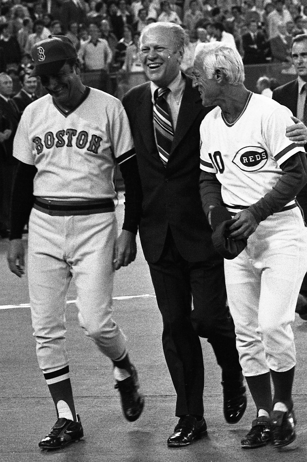 1976, July 13 – Veterans Memorial Stadium - Playing Field – Philadelphia, PA – Gerald R. Ford, Darrell Johnson; George "Sparky" Anderson; Crowd – walking, talking; crowd in background – Trip to Pennsylvania - Prior to Major League Baseball All-Star Game - Manager, Boston Red Sox; Manager of Cincinnati Reds